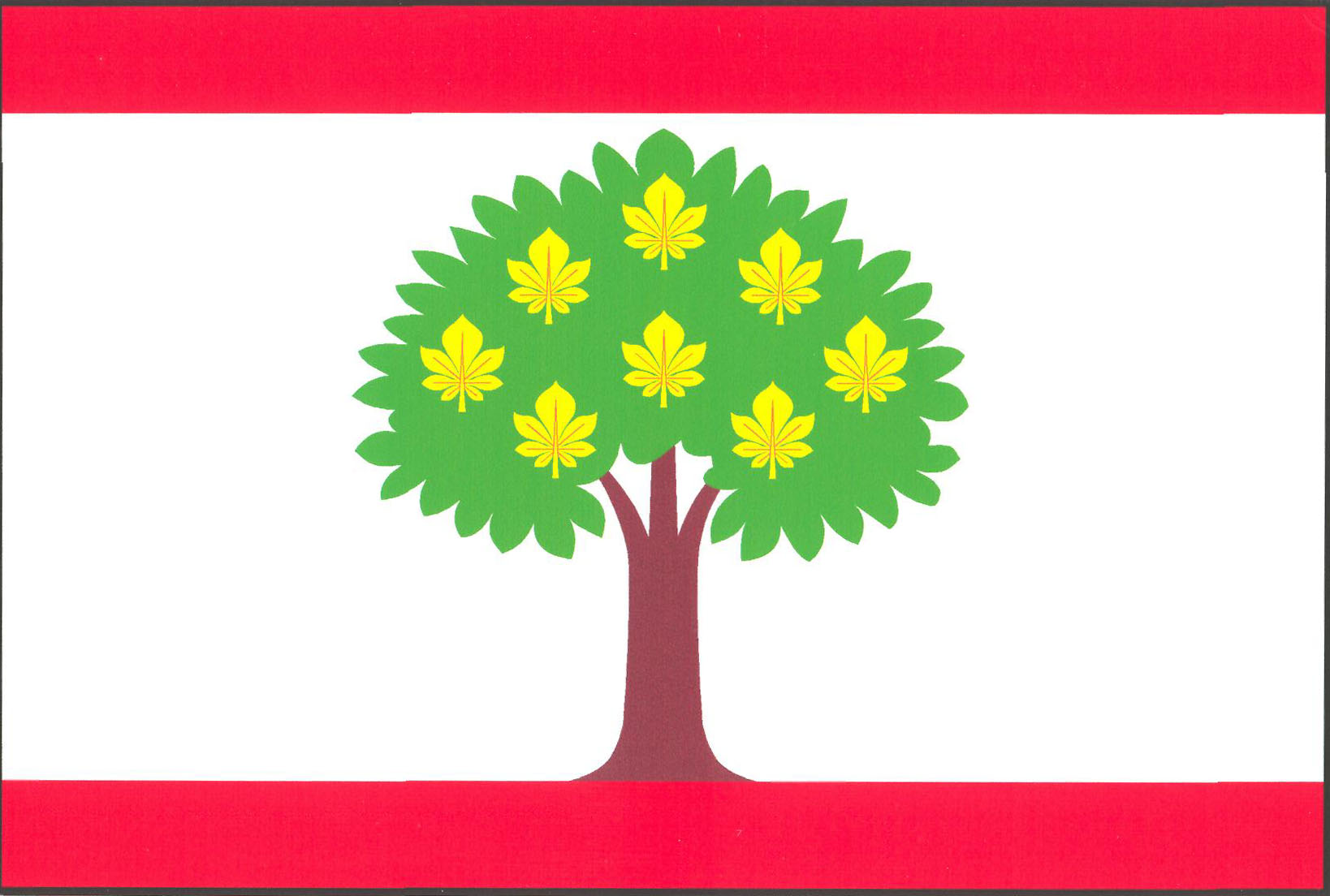 Municipal flag of Kutrovice village, Kladno District, Czech Republic.